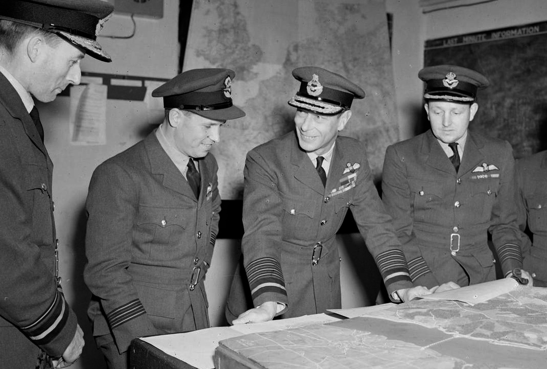 This image is a digitized photograph of Air Vice-Marshal Ralph Cochrane, Wing Commander Guy Gibson, King George VI and Group Captain John Whitworth discussing the 'Dambusters Raid' in May 1943. The image was taken from where it was marked as Crown Copyright. As this photograph is more than 50 years old it is now in the public domain. I have made some minor digital alterations to to photograph. I release my changes to the public domain.